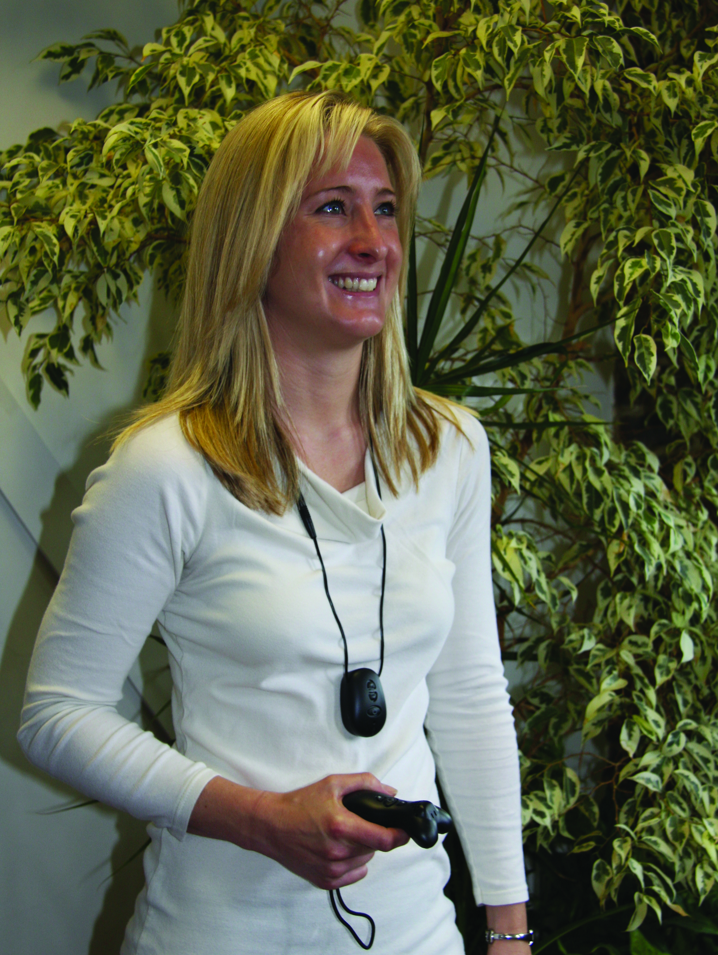 Young woman using an assistive listening device